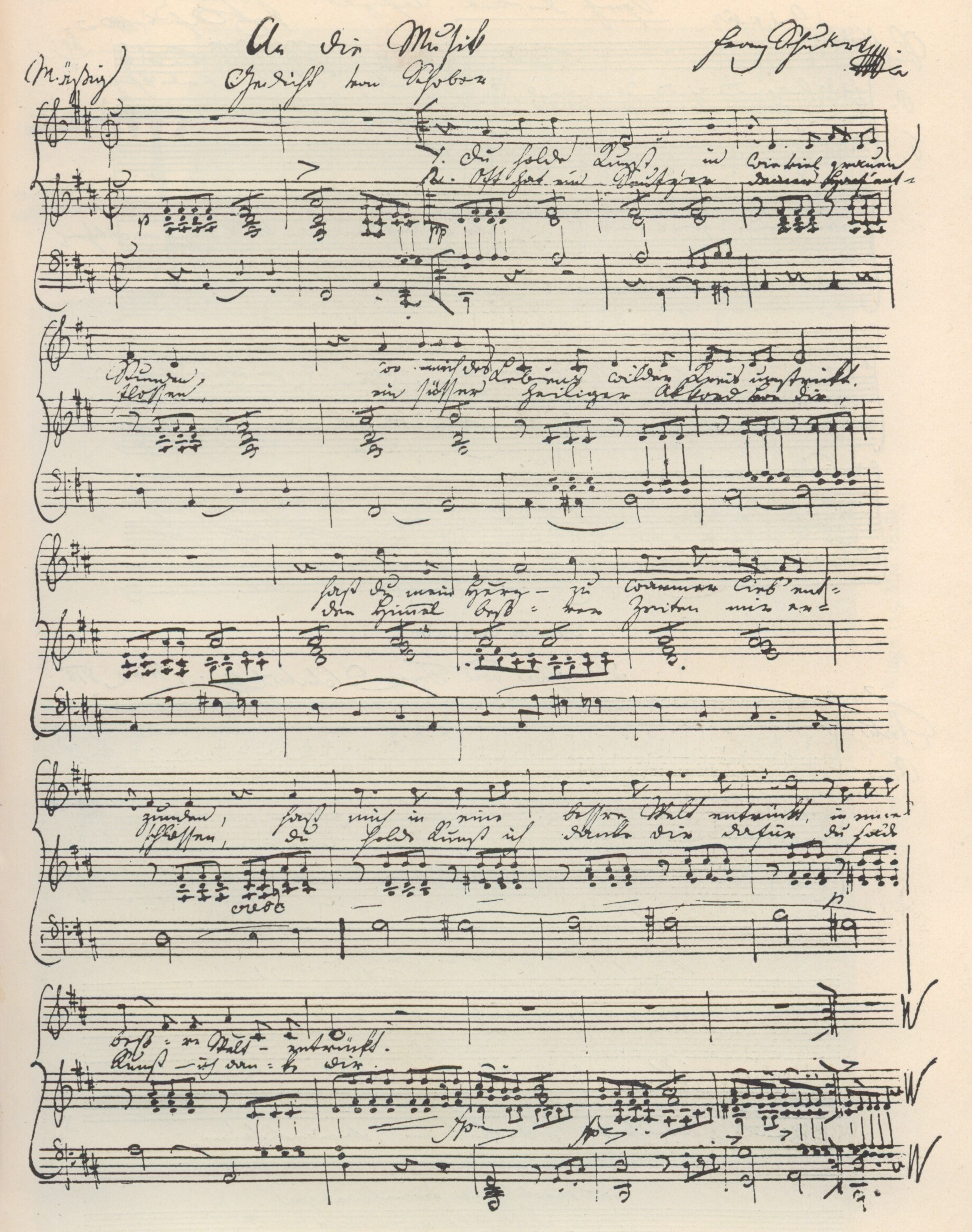 Schubert-Schober. Facsimile W. Dahms, 1913